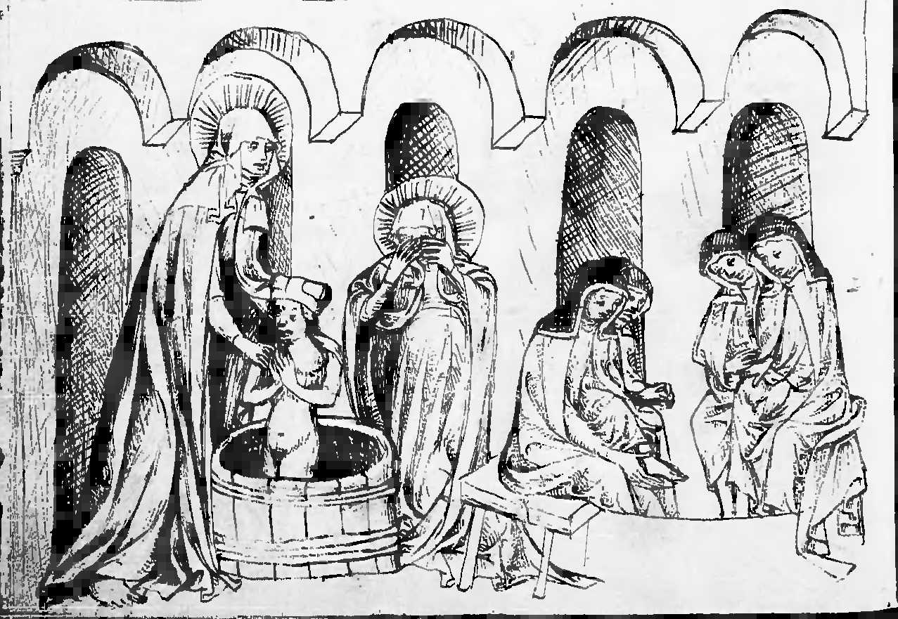 Hedwig of Andechs bathing her grandson Boleslaus II Rogatka of Silesia; Anna von Böhmen attending